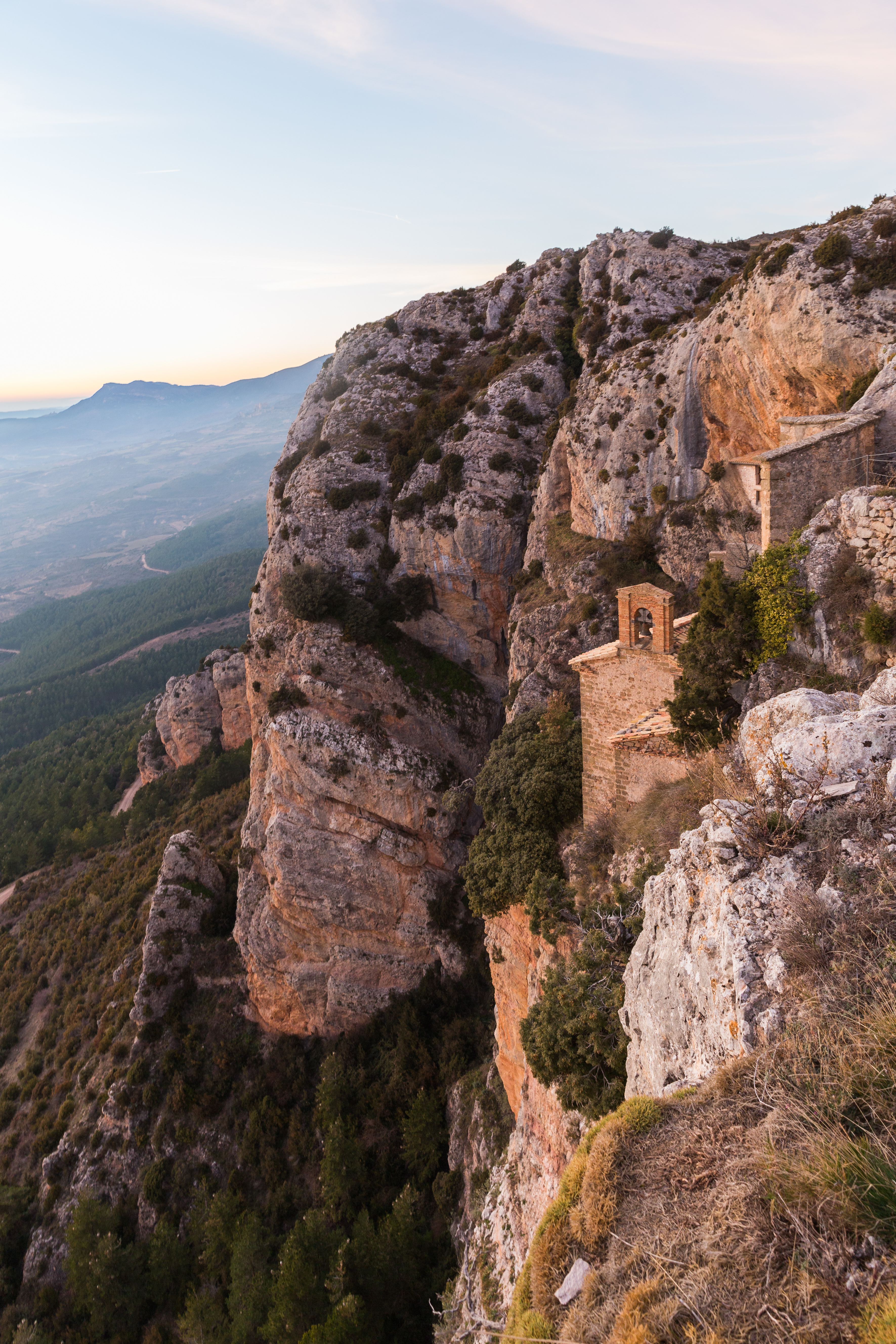 Sunset view of the Ermita de la Virgen de la Peña (Hermitage of the Virgen of the Rock) with the village of Aniés in the back, province of Huesca, Spain.